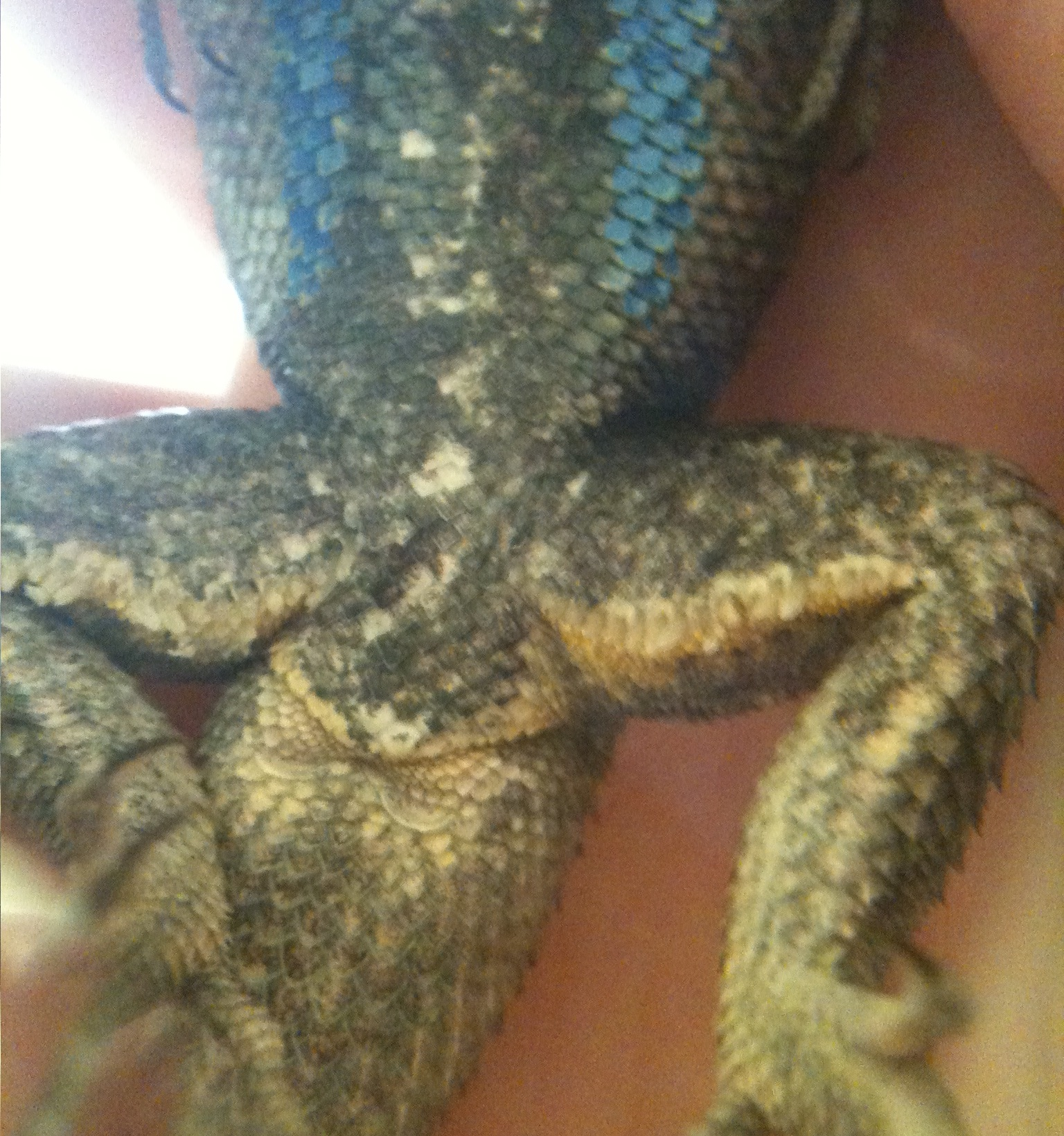 Waxy secretion from a male Western Fence Lizard.